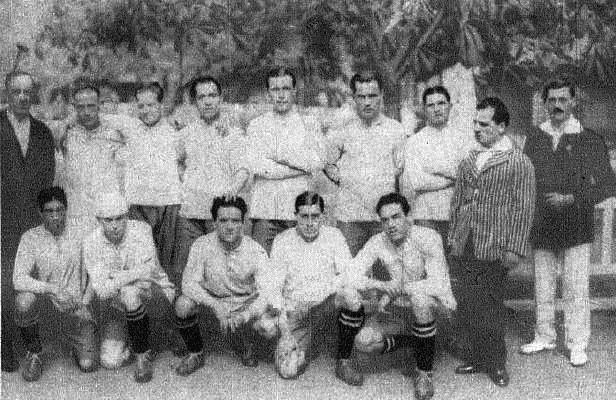 Uruguay national team that won the Campeonato Sudamericano (current "Copa América") in 1920. Standing: Urdinarán, Pérez, Romano, Piendibene, Foglino, Ravera, Fígoli (coach); Kneeling: Somma, Zibechi, Ruotta, Legnazzi, Cámpolo